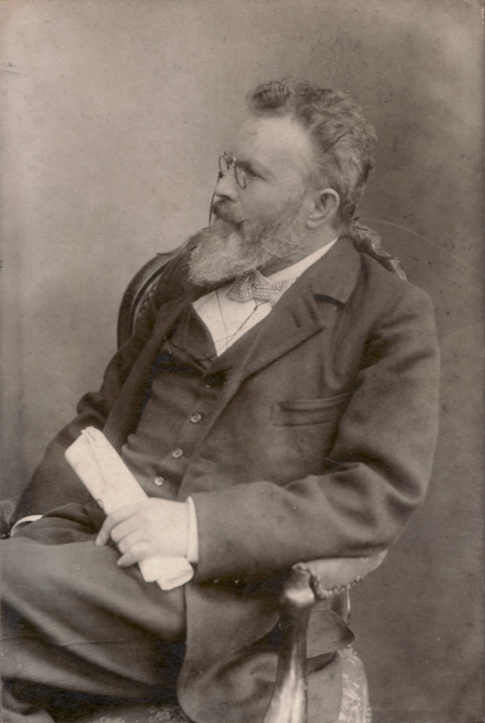 Portrait of Julius Anton Beck, German writer